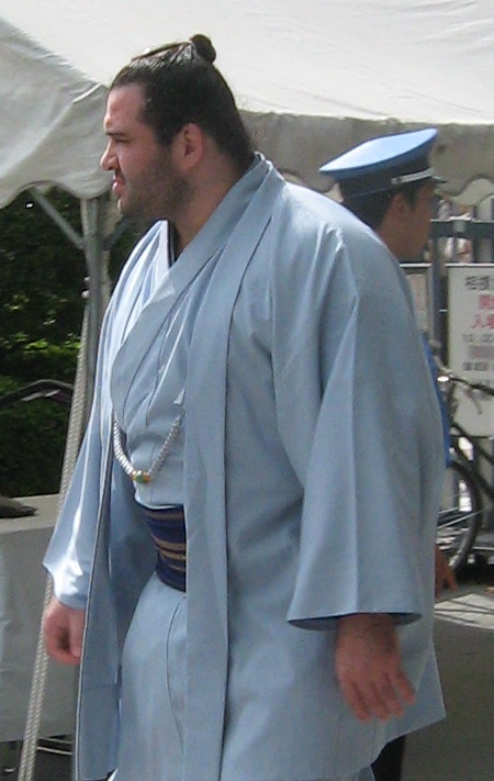 Taken at 2008 tournament